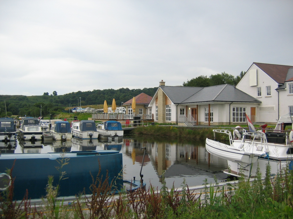 Auchinstarry Marina on the Forth & Clyde Canal, Scotland